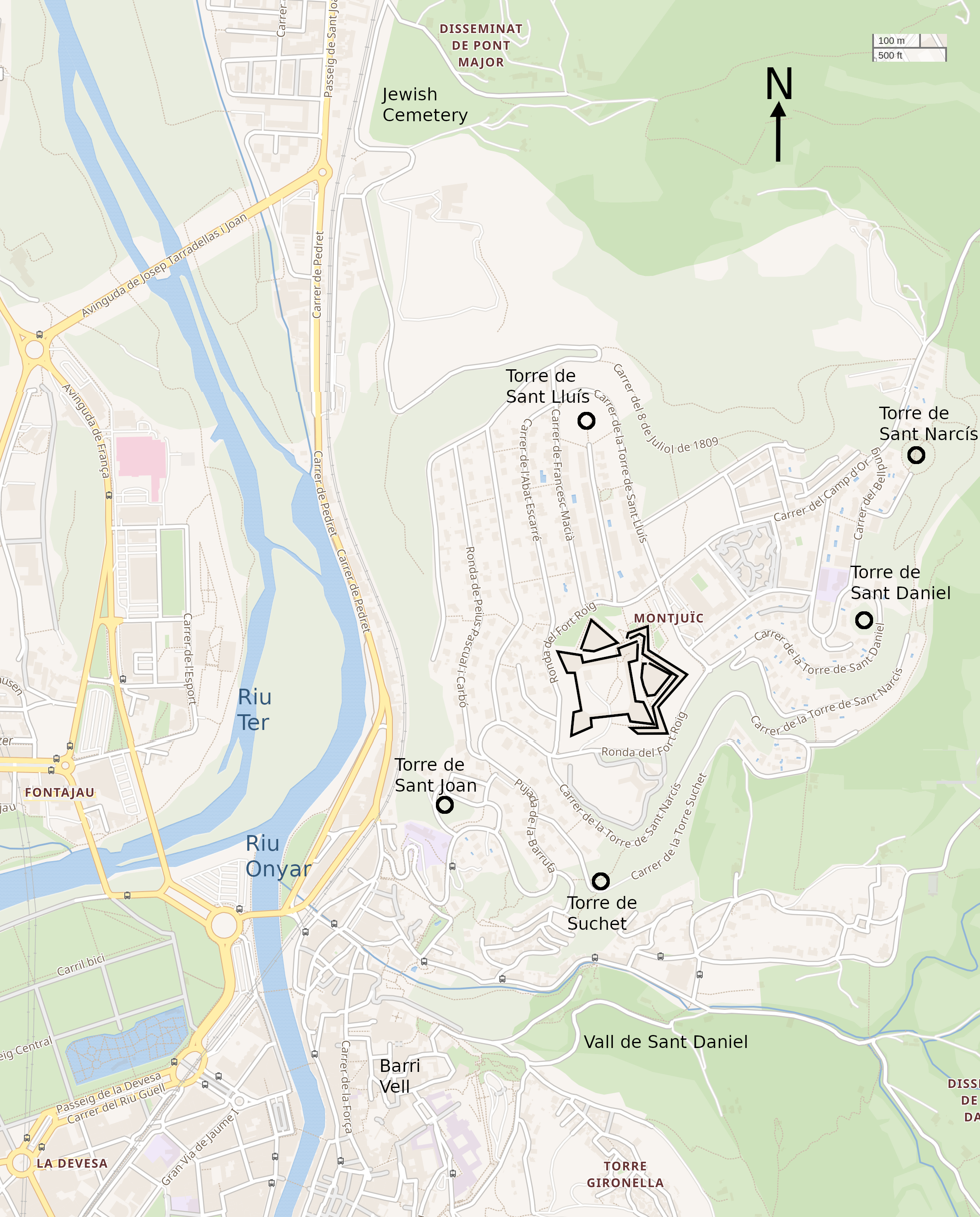 A map of the mountain of Montjuic, its relation to the city of Girona, and historical features on the mountain.